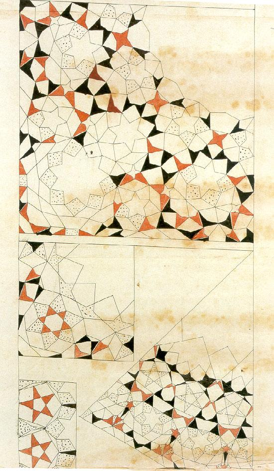 Drawing of muqarnas from Topkapi Scroll // Fan-shaped radial muqarnas quarter vault, rhombodial one-eight repeat unit of an octagonal fan-shaped radial muqarnas quarter vault, fan-shaped radial muqarnas quarter vault, and rectangular repeat unit of stellate muqarnas fragment.